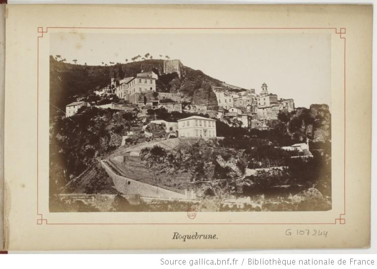 General view of Roquebrune circa 1890 (Alpes-Maritimes, France).